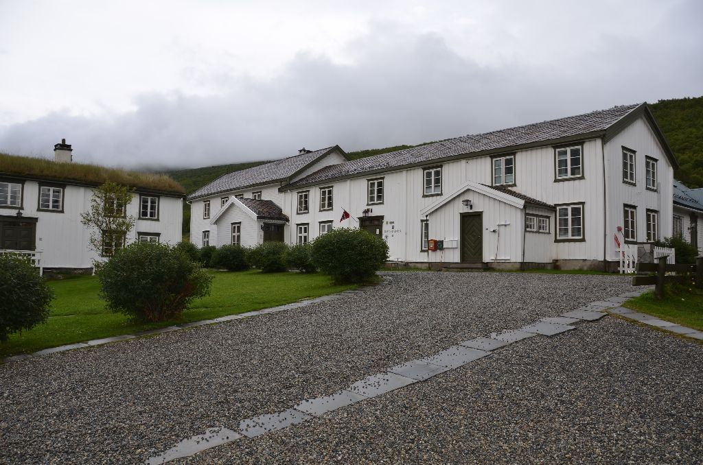 Kongsvold Fjeldstue